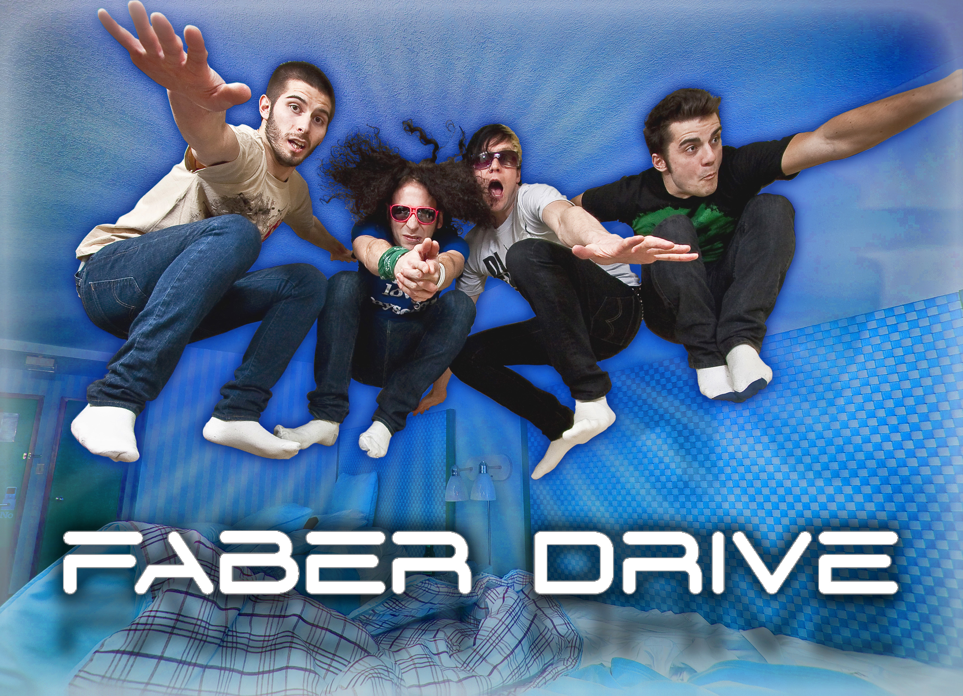 Faber Drive 2010 Promo Shot